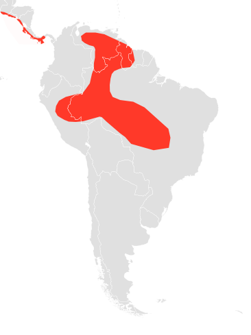 Distribution of Molossus coibensis